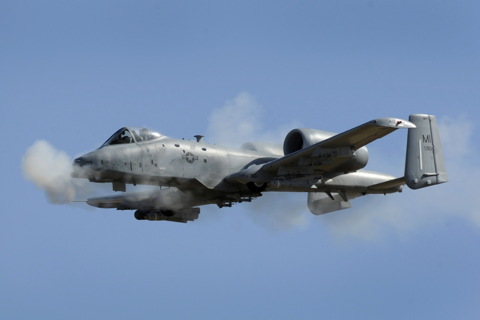 A U.S. Air Force Fairchild Republic A-10A Thunderbolt II (s/n 79-0193) from the 107th Fighter Squadron, Michigan Air National Guard, blasts its' 30mm gatling gun during exercise "Hawgsmoke 2010". The 107th Fighter Squadron, from the 127th Wing, Selfridge Air National Guard Base, Michigan (USA), recently participated in the biennial A-10 Thunderbolt II bombing, missile and tactical gunnery competition "Hawgsmoke". The 2010 competition was held at Gowen Air National Guard Base, Boise, Idaho (USA) from 13 to 16 October.